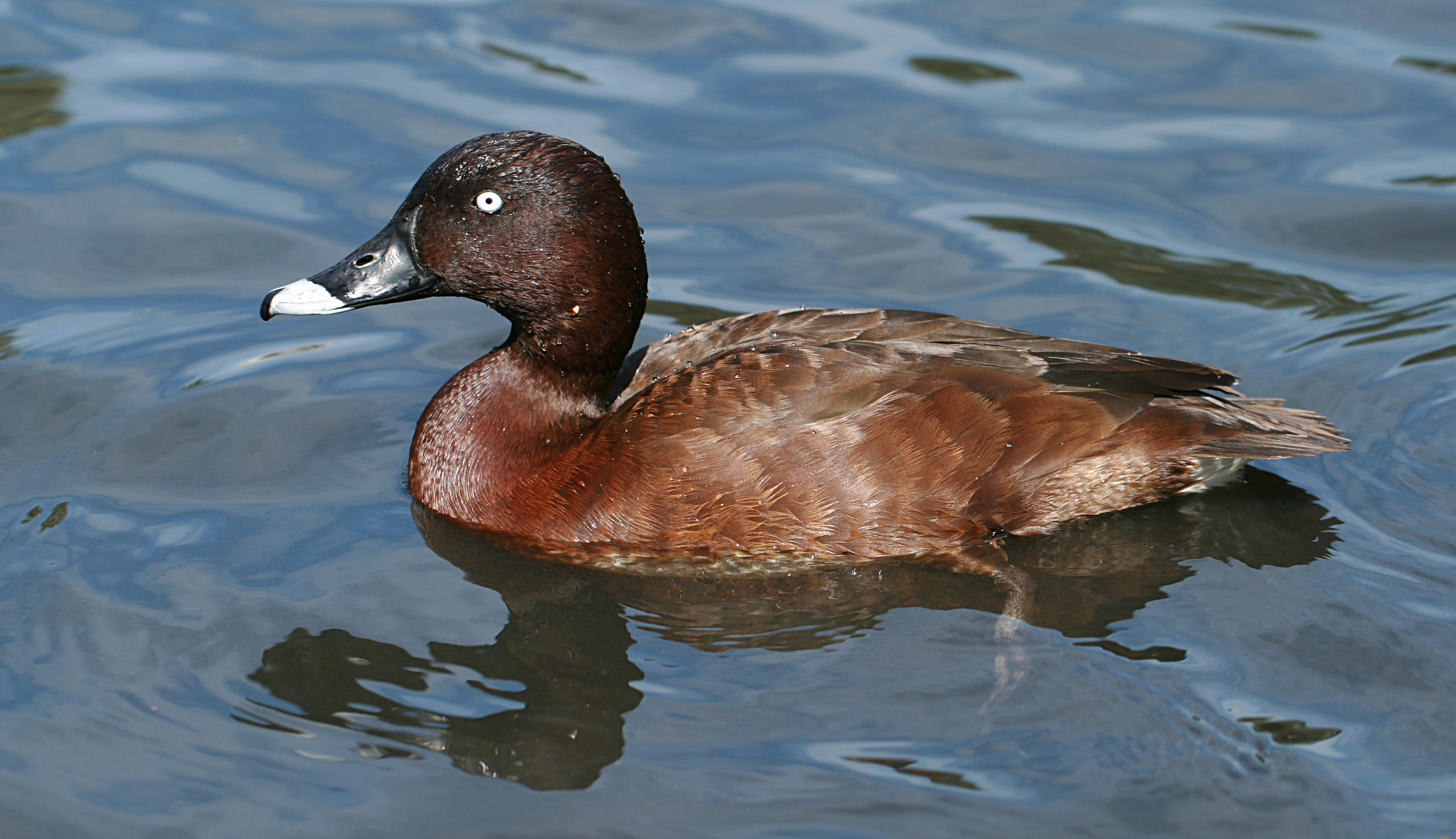 A male Hardhead duck, Aythya australis, in Victoria Park, Sydney.